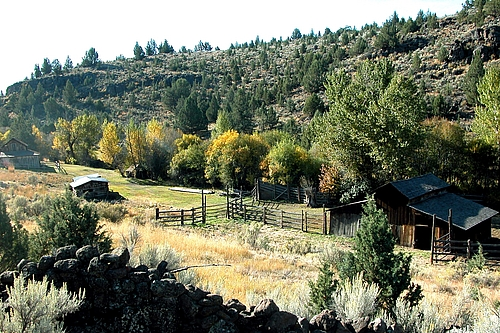 Riddle Ranch National Historic District in Harney County, Oregon; historic wooden barn with a tin roof standing in forested valley surrounded by ranch land.